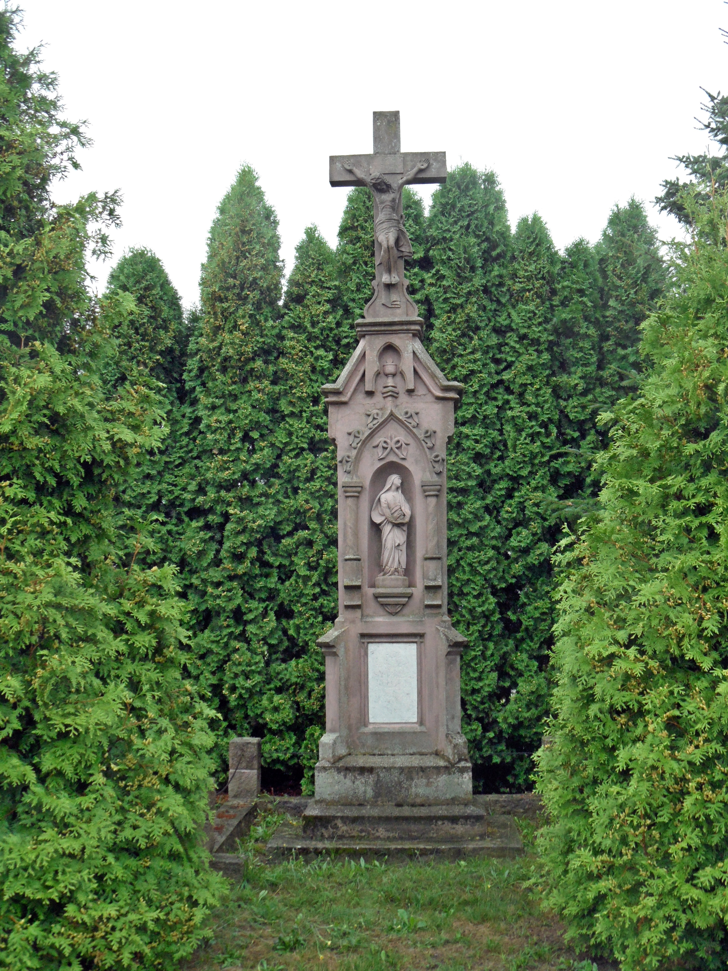 Chvojenec M. Crucifix. Pardubice District, the Czech Republic.